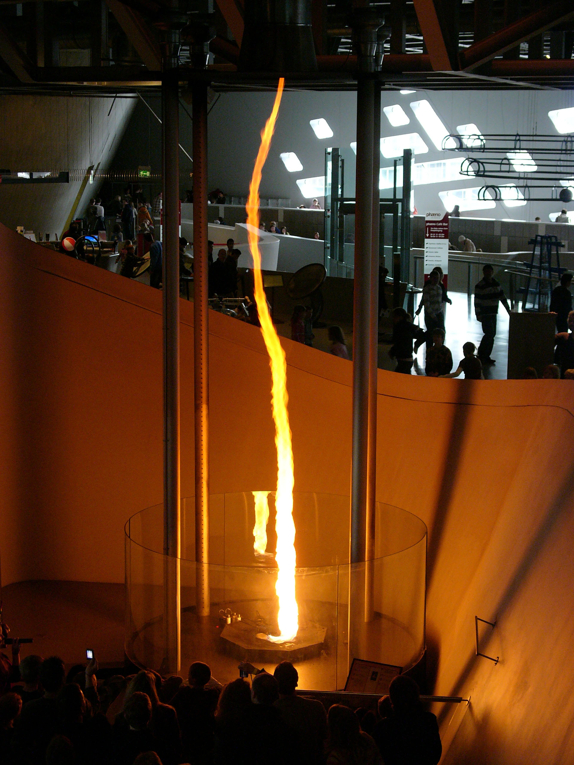 Fire tornado (Phaeno, Wolfsburg, northern Germany)